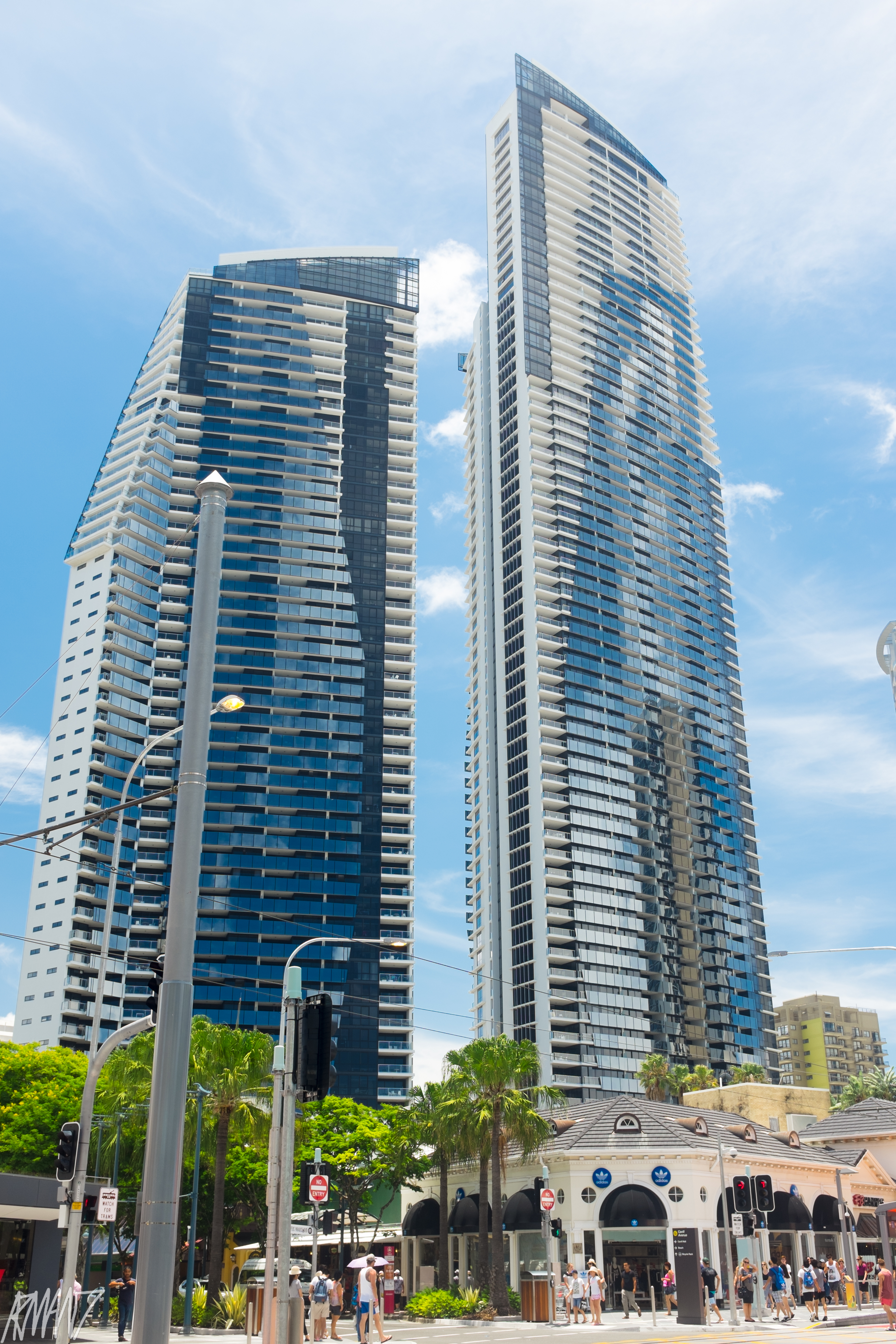 Circle on Caville Towers